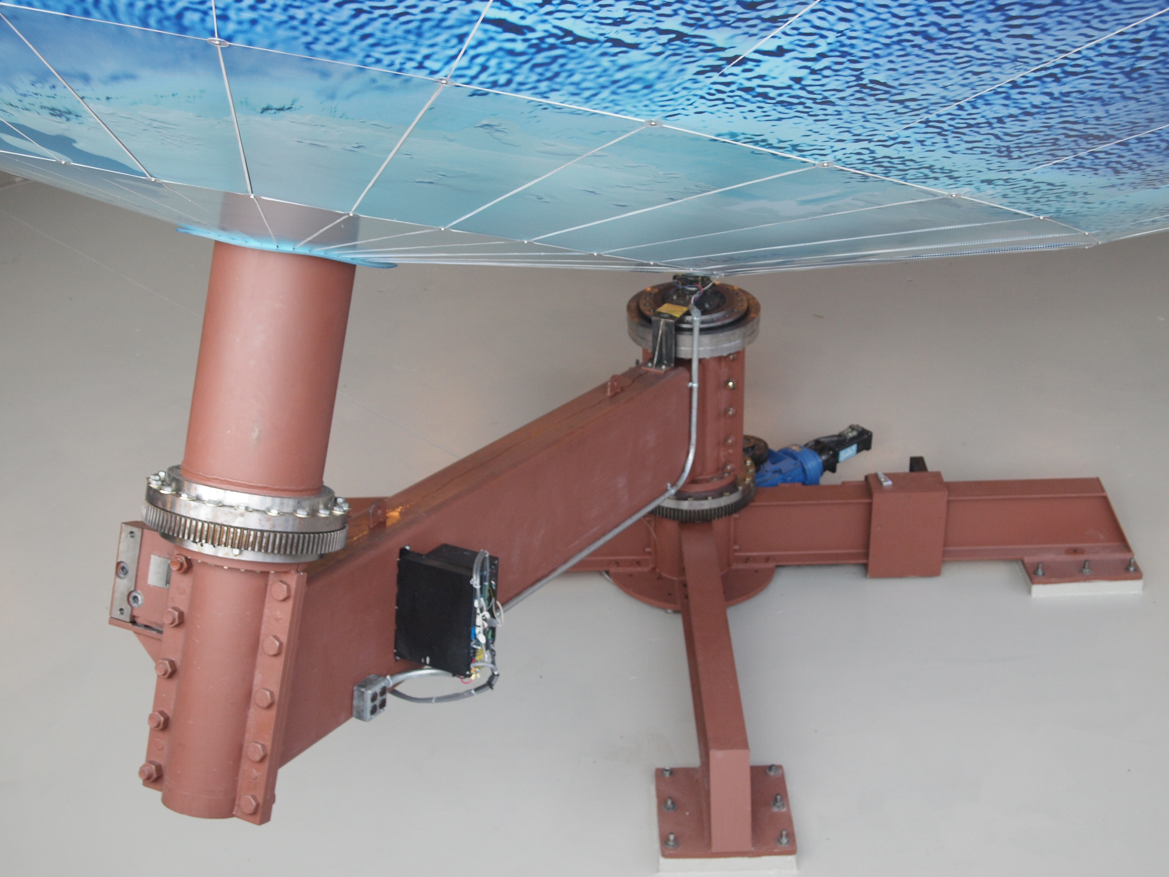 Eartha's mounting at the base using a cantilever mount with two motors.